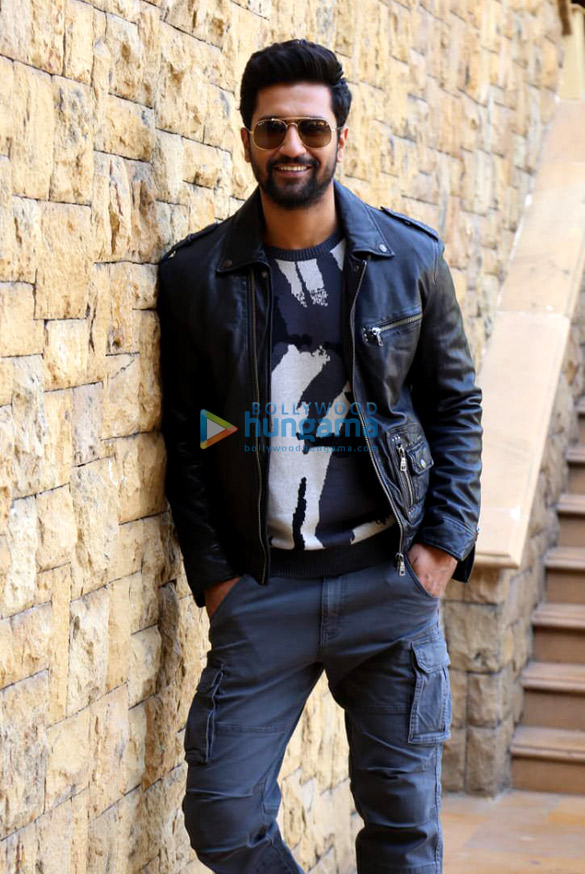 Vicky Kaushal snapped during Uri interviews at JW Marriott in Juhu